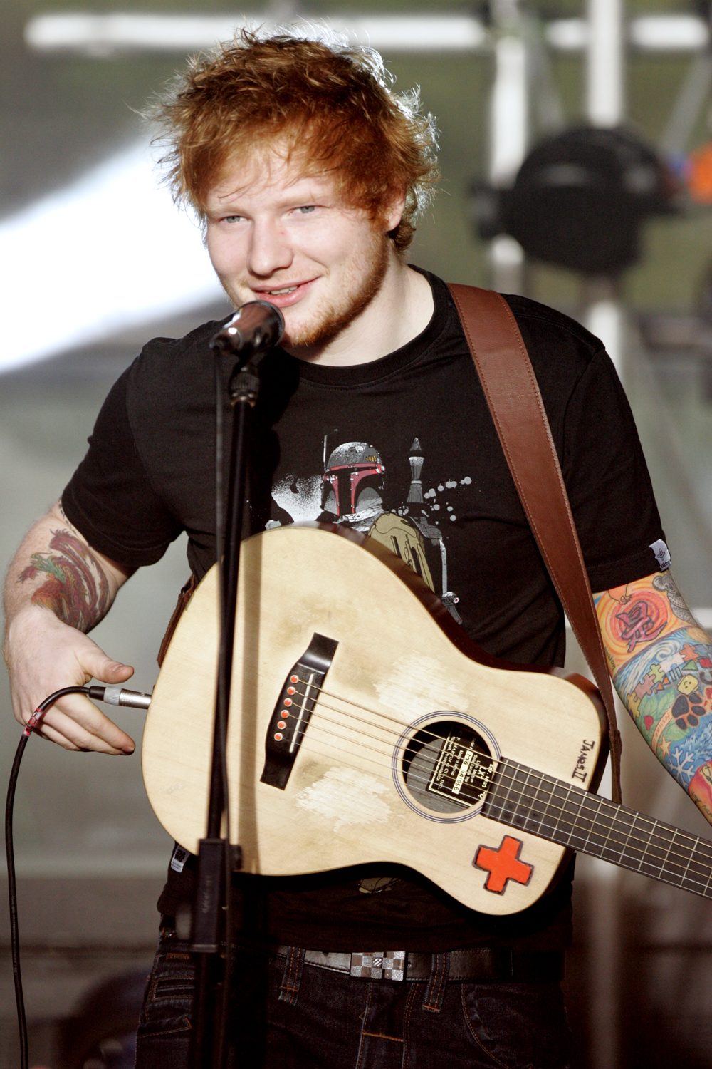 Ed Sheeran